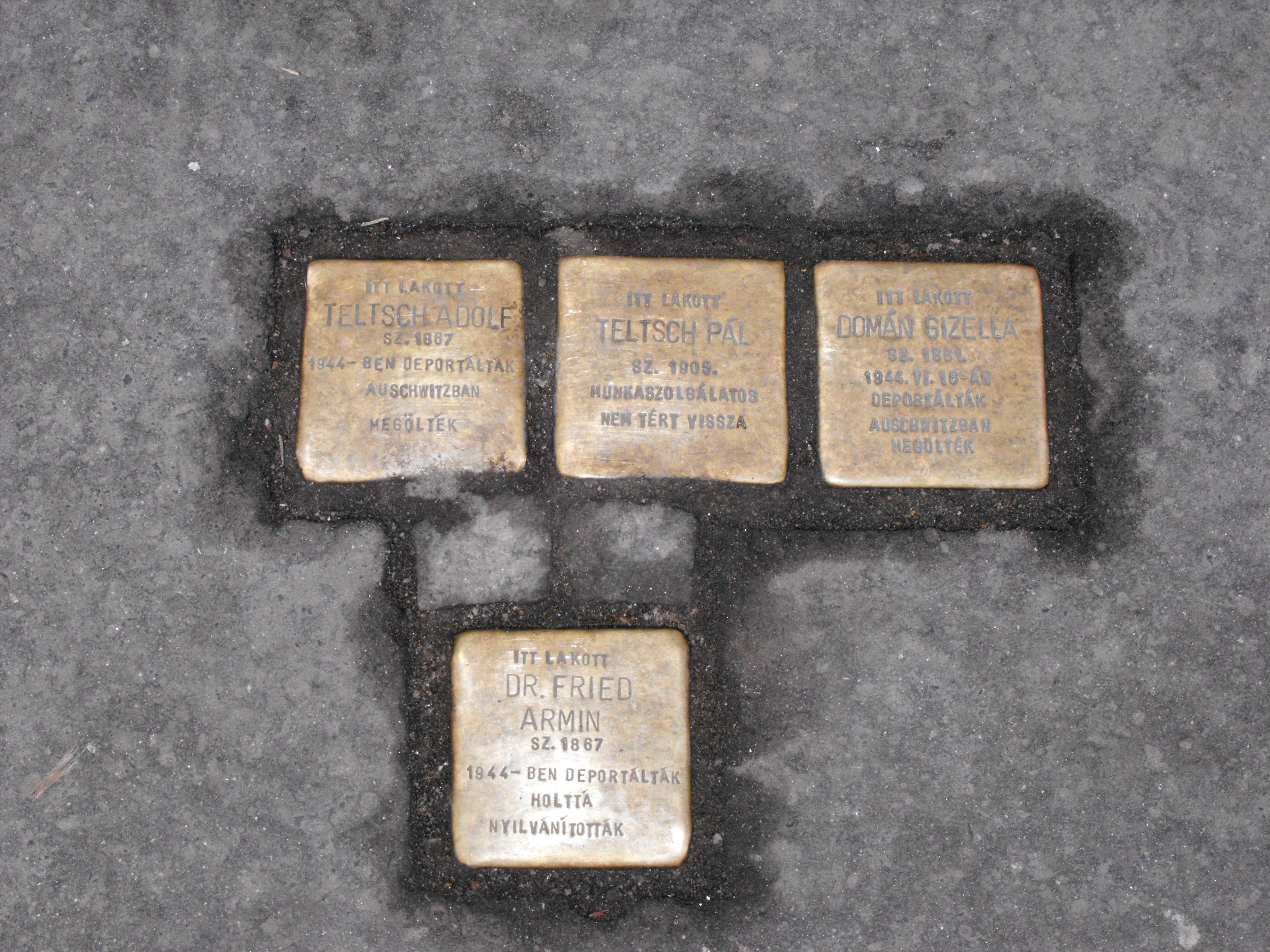 Stolpersteine in Makó, Hungary.